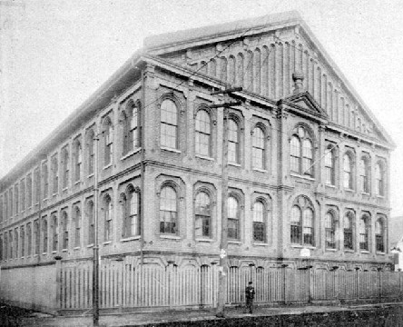 New Orleans. McDonogh School 13 building circa 1900. In 1917 it was renamed McDonogh No. 35 and repurposed from a "White" elementary school to a "colored" high-school. The building was destroyed when Hurricane Betsy hit the city in 1965. Building was located at 655 South Rampart Street, at the corner of Girod Street.